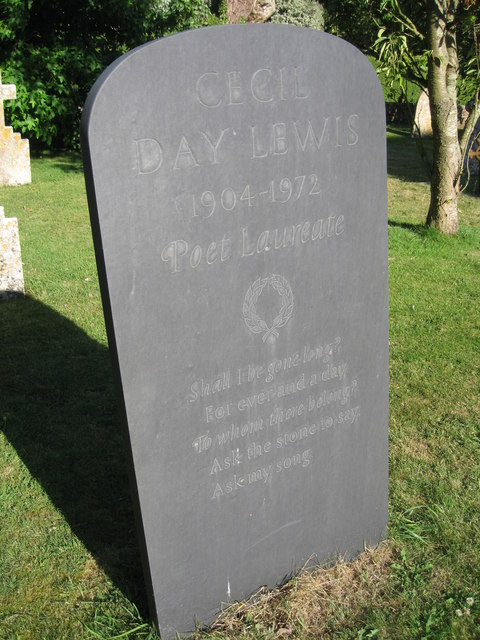 Headstone of Cecil Day Lewis, former Poet Laureate.